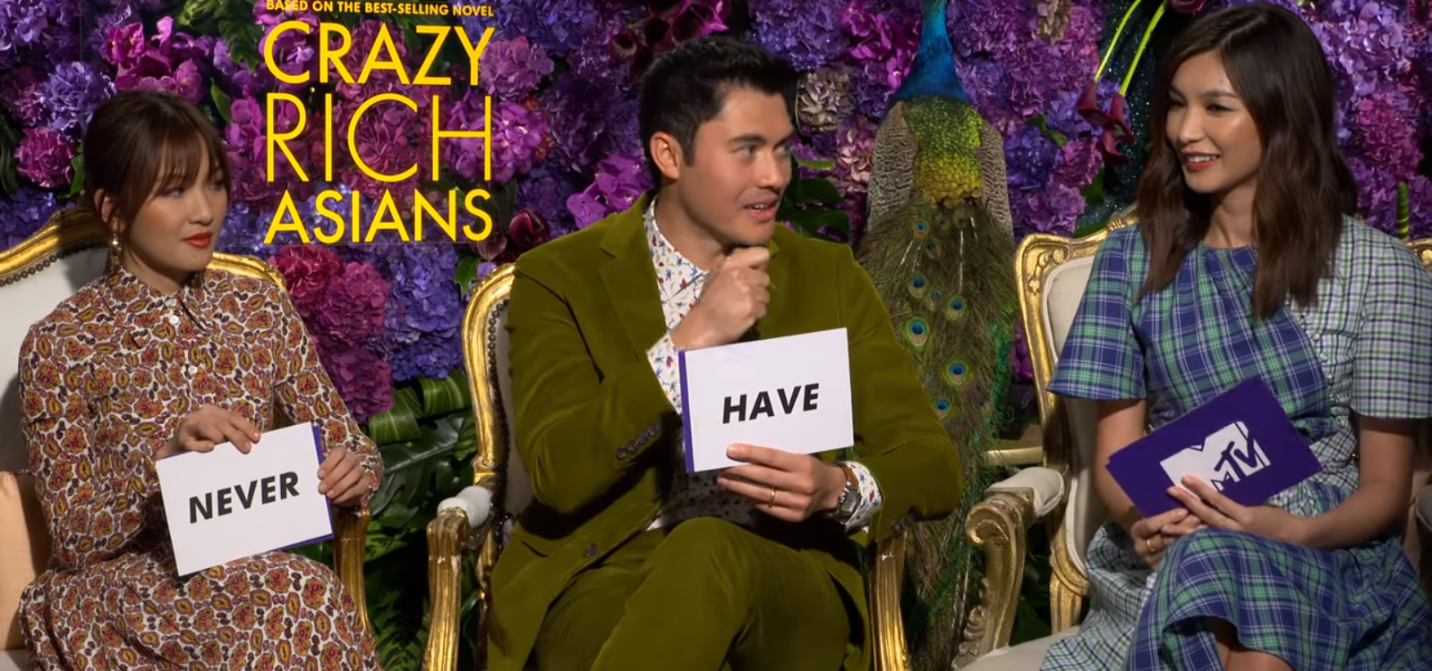 Constance Wu, Henry Golding, Gemma Chan, Ken Jeong and Awkwafina play a hilarious game of Never Have I Ever: CRAZY RICH Edition! Plus, they reveal they were MUGGED BY MONKEYS on set!